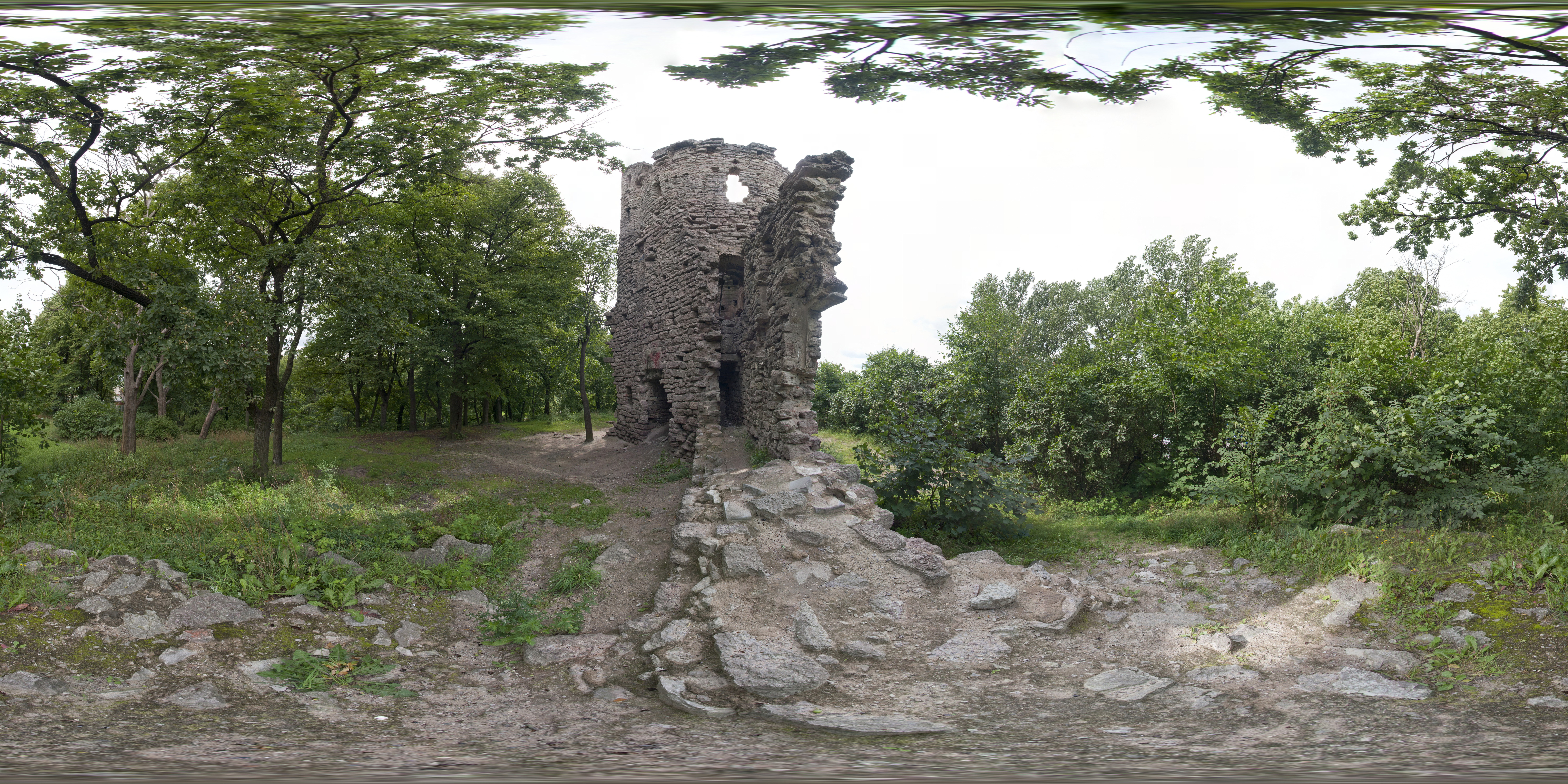 Aldaris park in Sarkandaugava neighbourhood of Riga